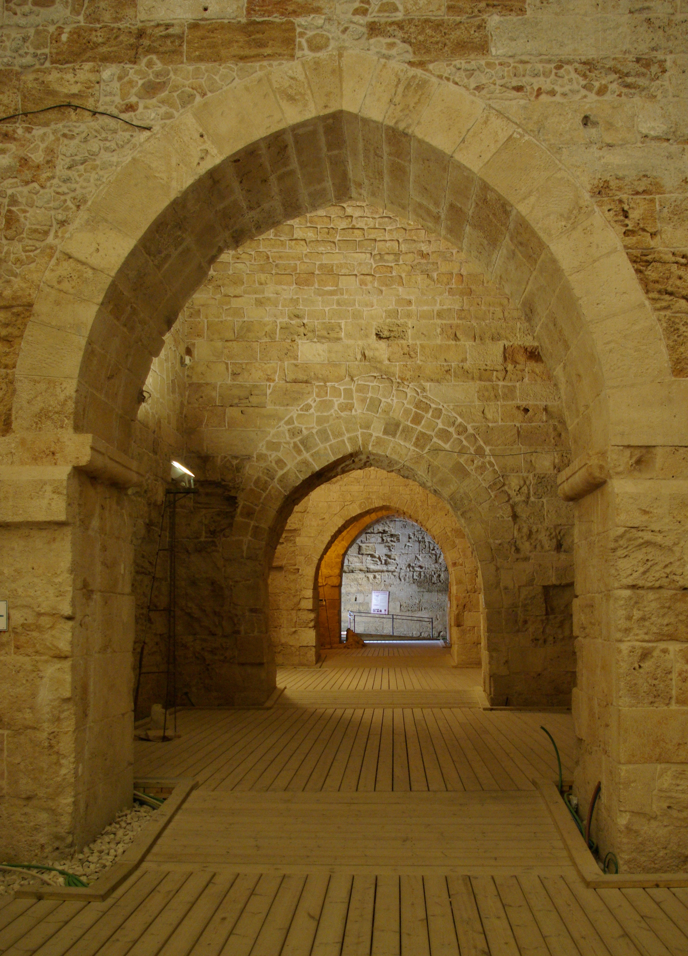 Acre, Hospitallers' citadel